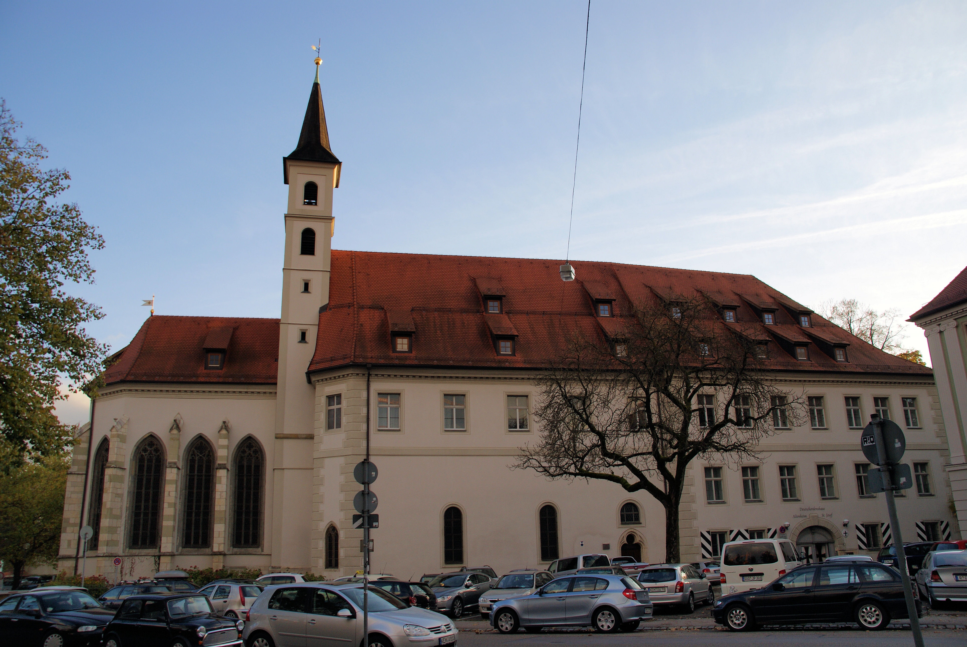 St. Ägidius in Regensburg, former church of the Teutonic Order, built in 1270/80